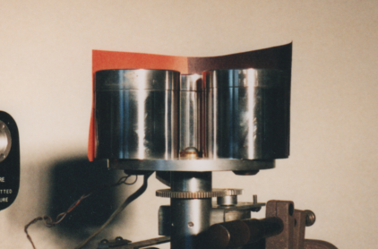 Gaspard-Rice scattering system being tested experimentally with coloured strips of cardboard: the basins of attraction are projected onto the impact-parameter space.